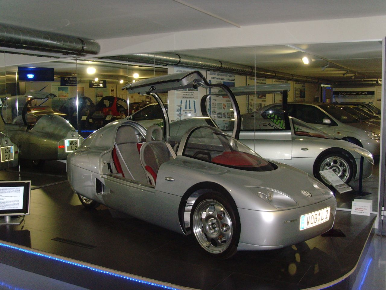 The 2002 concept car Volkswagen 1L (“1 litre car”) at the AUTOVISION museum in Altlußheim, Baden-Württemberg, Germany.